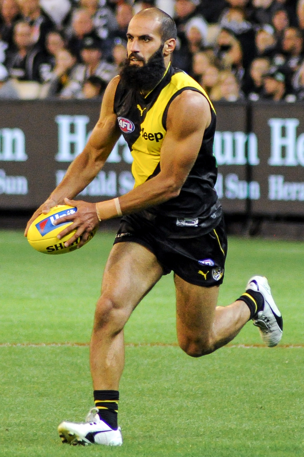 Bachar Houli during the AFL round two match between Richmond and Collingwood on 30 March 2017 at the Melbourne Cricket Ground in Melbourne, Victoria.